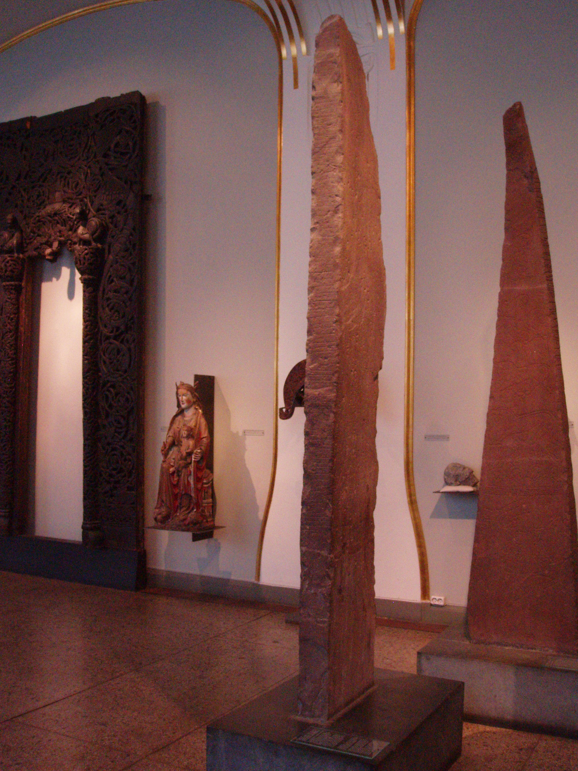 One side of the Alstad runestone as displayed in the Museum of Cultural History in Oslo, Norway. The stone was discovered in Alstad, Toten, Oppland, Norway. The Alstad runestone is the leftmost stone in the picture. The Alstad stone is according to the object display dated to ca. 1000 CE. The stone features both runic inscriptions and ornamentation/images.